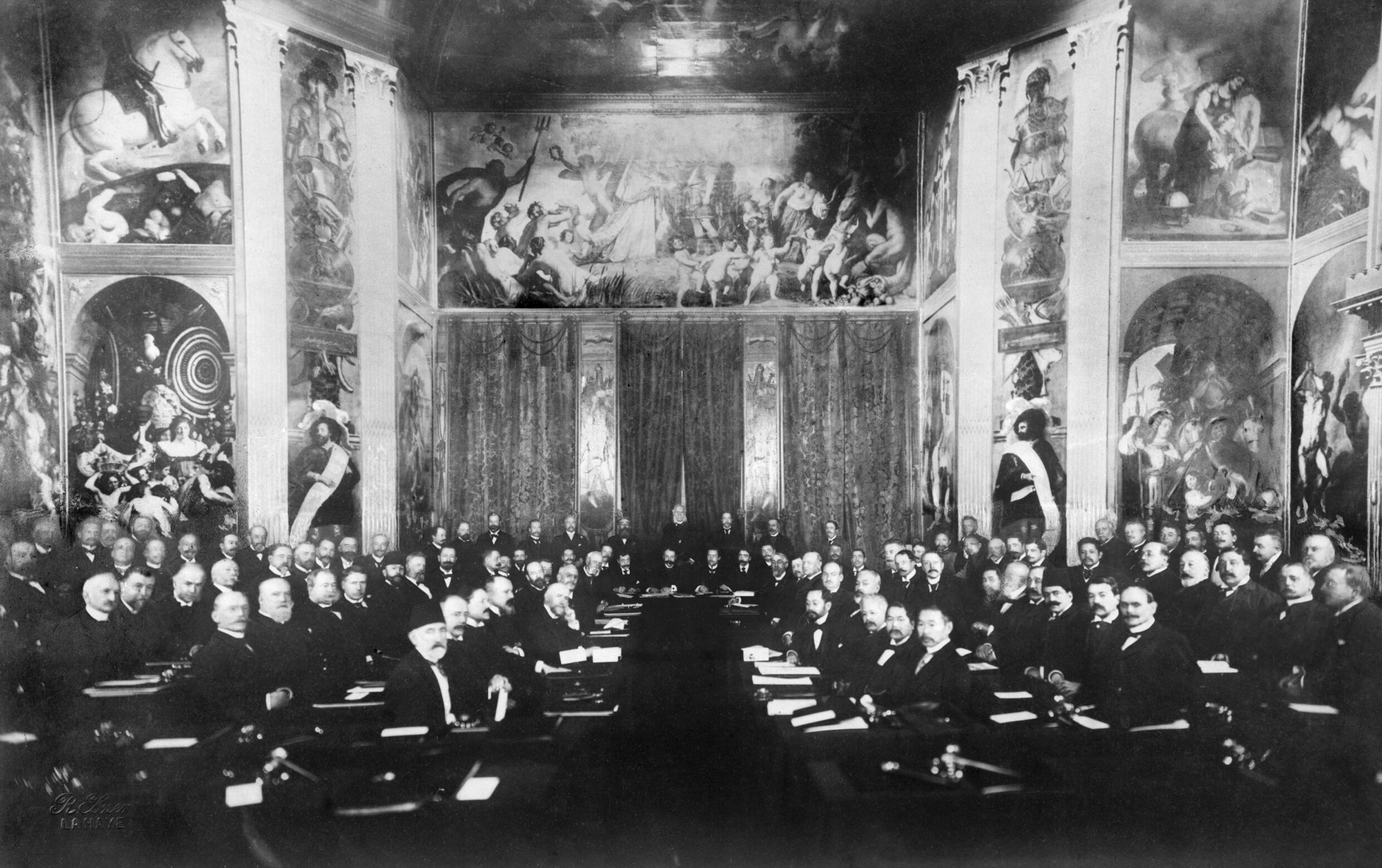 The First International Peace Conference, the Hague, May - June 1899 Delegates to the Conference which was called by the Tsar of Russia to discuss world disarmament. The Tsar hoped to spare his country the financial burden of having to match the arms expenditure of Germany and Austria. In this respect the Conference did not succeed. However it did define and codify some of the rules of war in a series of Conventions. It also established an international court of arbitration. These achievements would significantly influence the conduct of the two world wars.